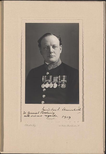 This photograph, probably taken while Churchill was Secretary of State for War and Air, was inscribed and given to U.S. General John J. Pershing, commander of the American Expeditionary Forces in Europe during World War I.